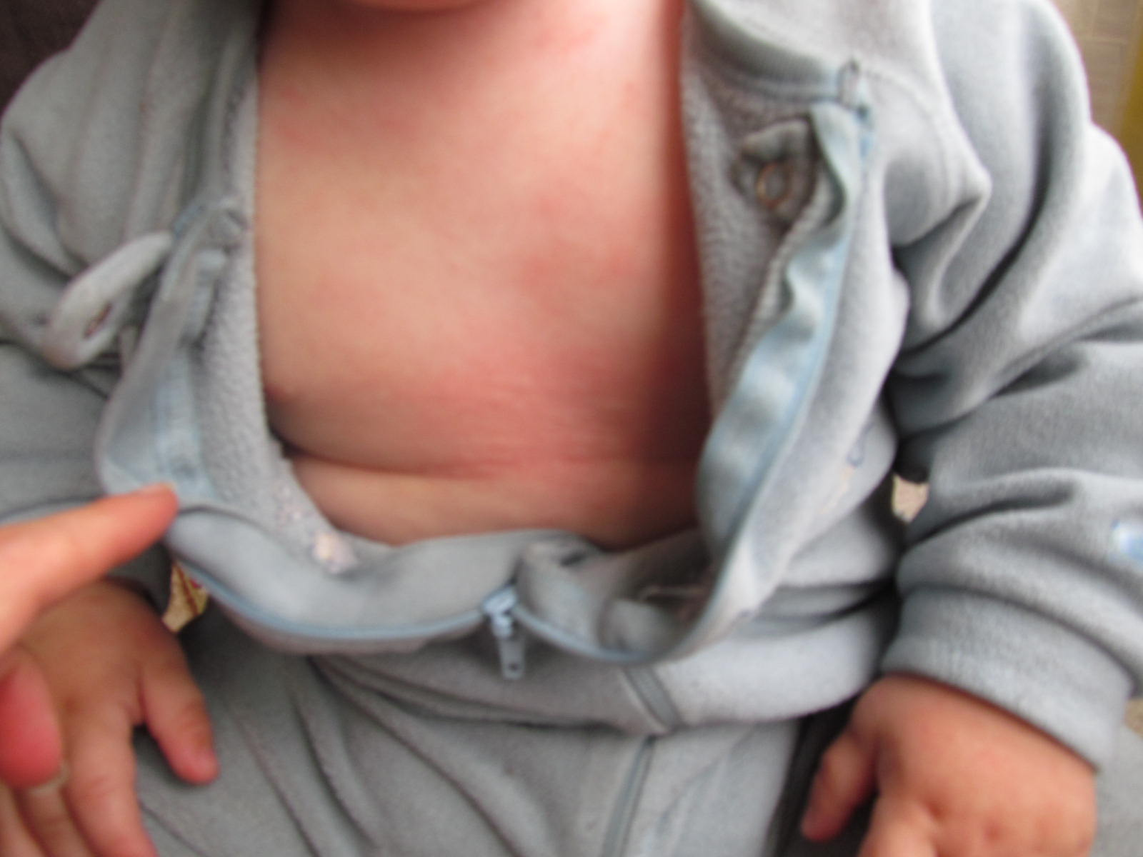 Milk Allergy